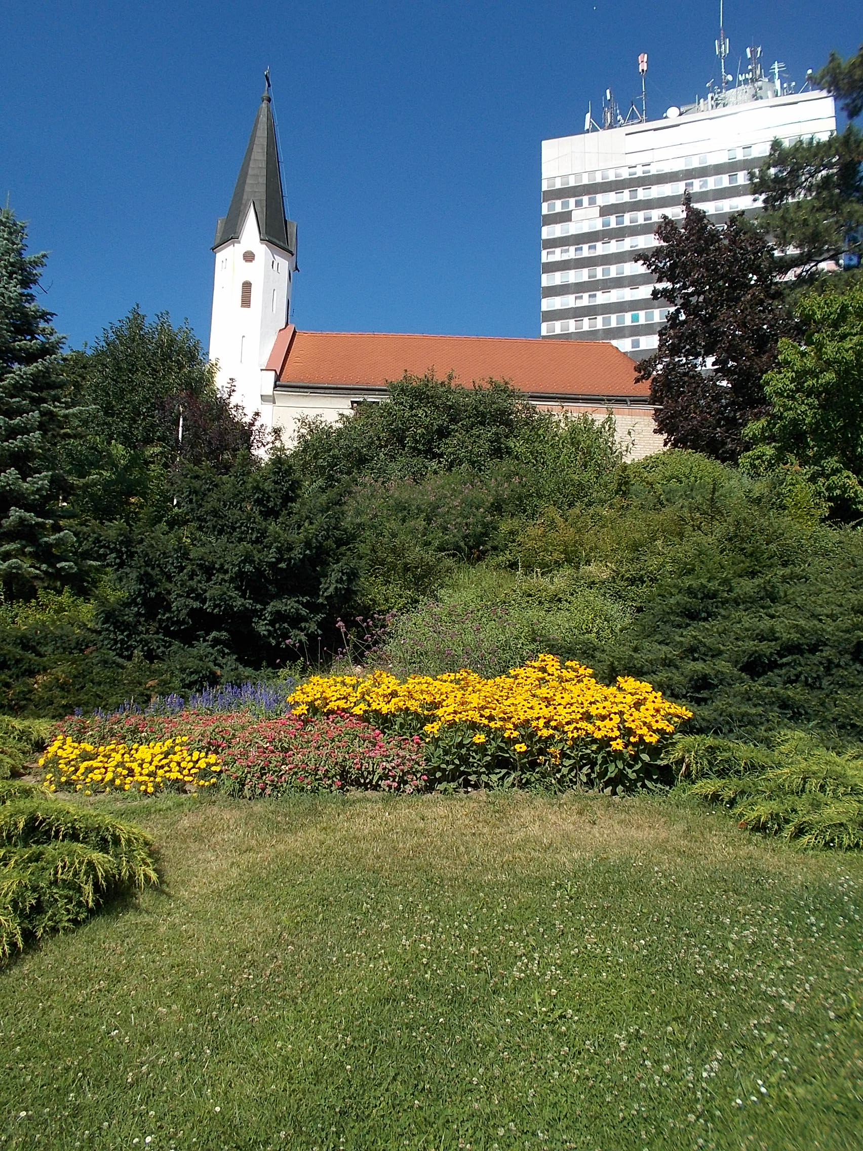 Lutheran Church. Late Baroque in 1790 and converted in the 20th century was expanded with tower.- Kossuth Lajos St., Belváros, Veszprém, Veszprém County, Hungary.